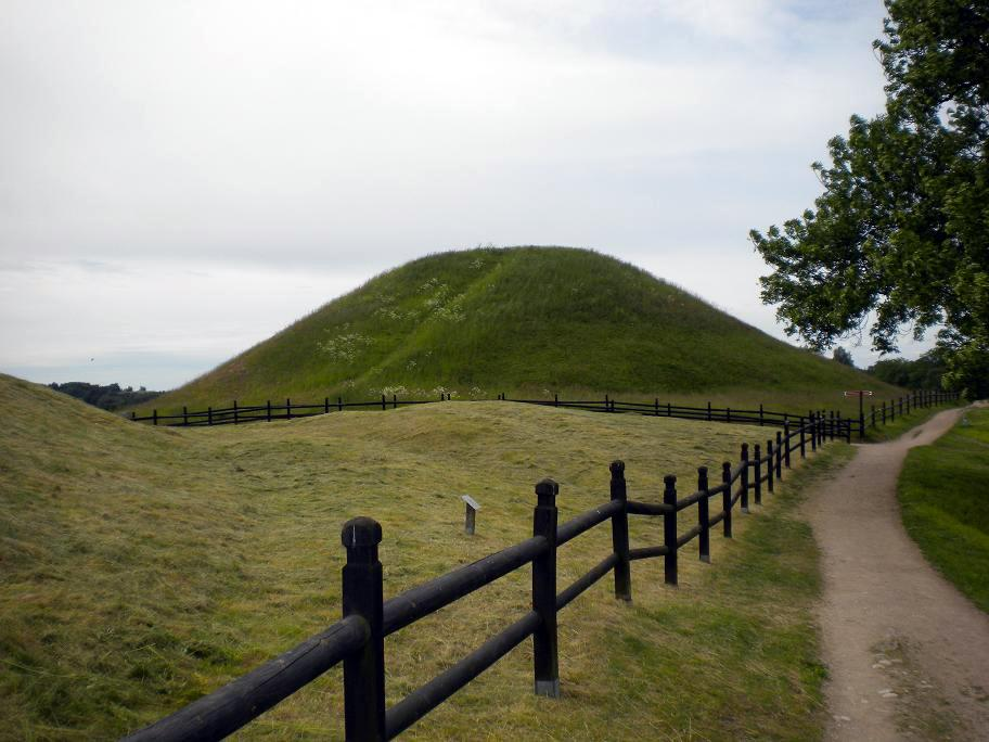 The western of the three large royal tumuli at Old Upsala, this one popularly called Thor’s Mound Torshögen and through the disputed findings of archaeologist Birger Nerman identified as the grave of a 6th century King Eadgils the Mighty (Adils den mäktige), though the identities of the three buried kings also have been interchanged by some writers and completely refuted by othersPlace: Upsala, Sweden